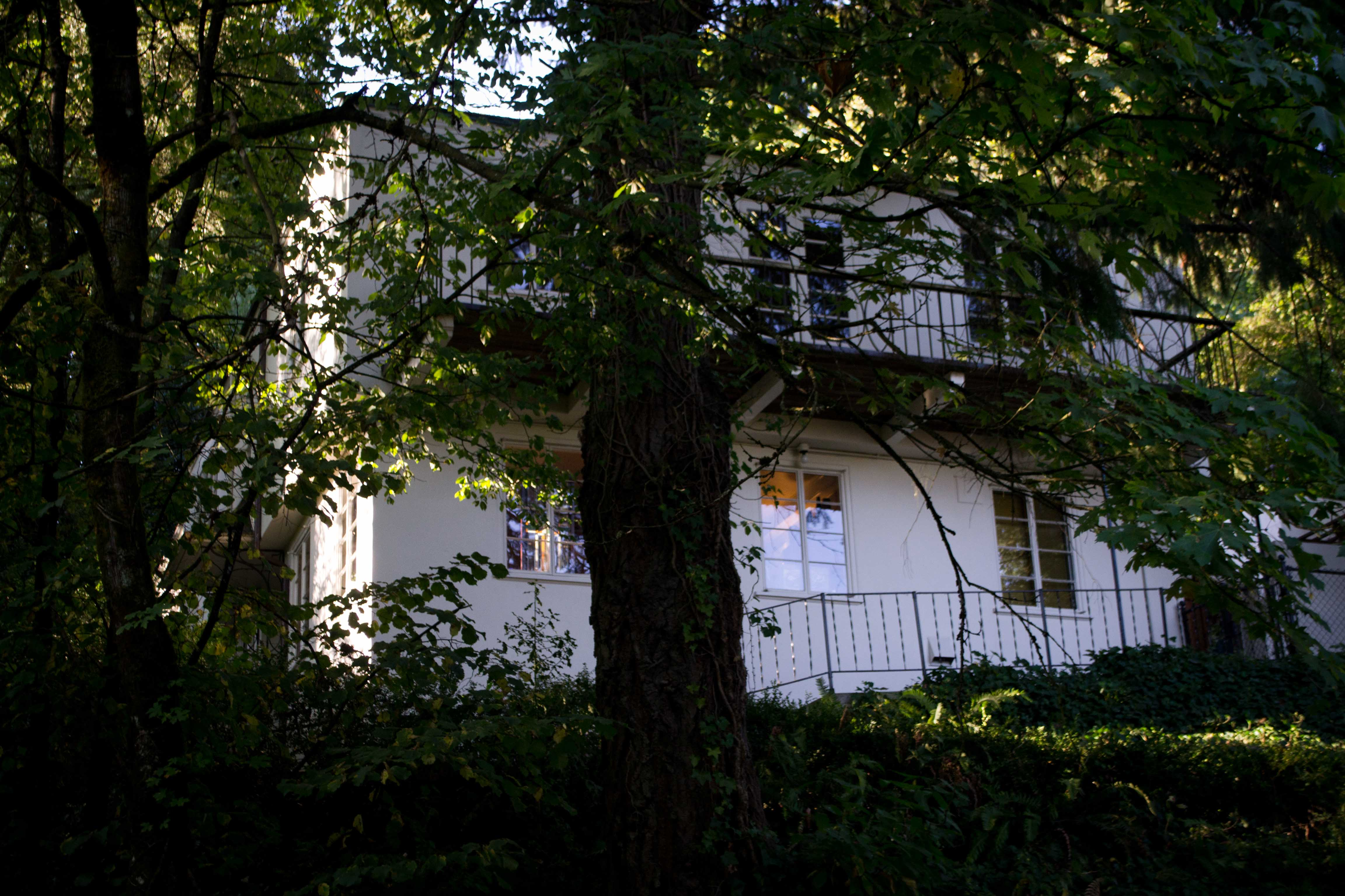 National Register of Historic Places listing in Portland, Oregon